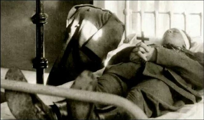 Michael Collins body lying in hospital after he was shot dead at Béal na Bláth.